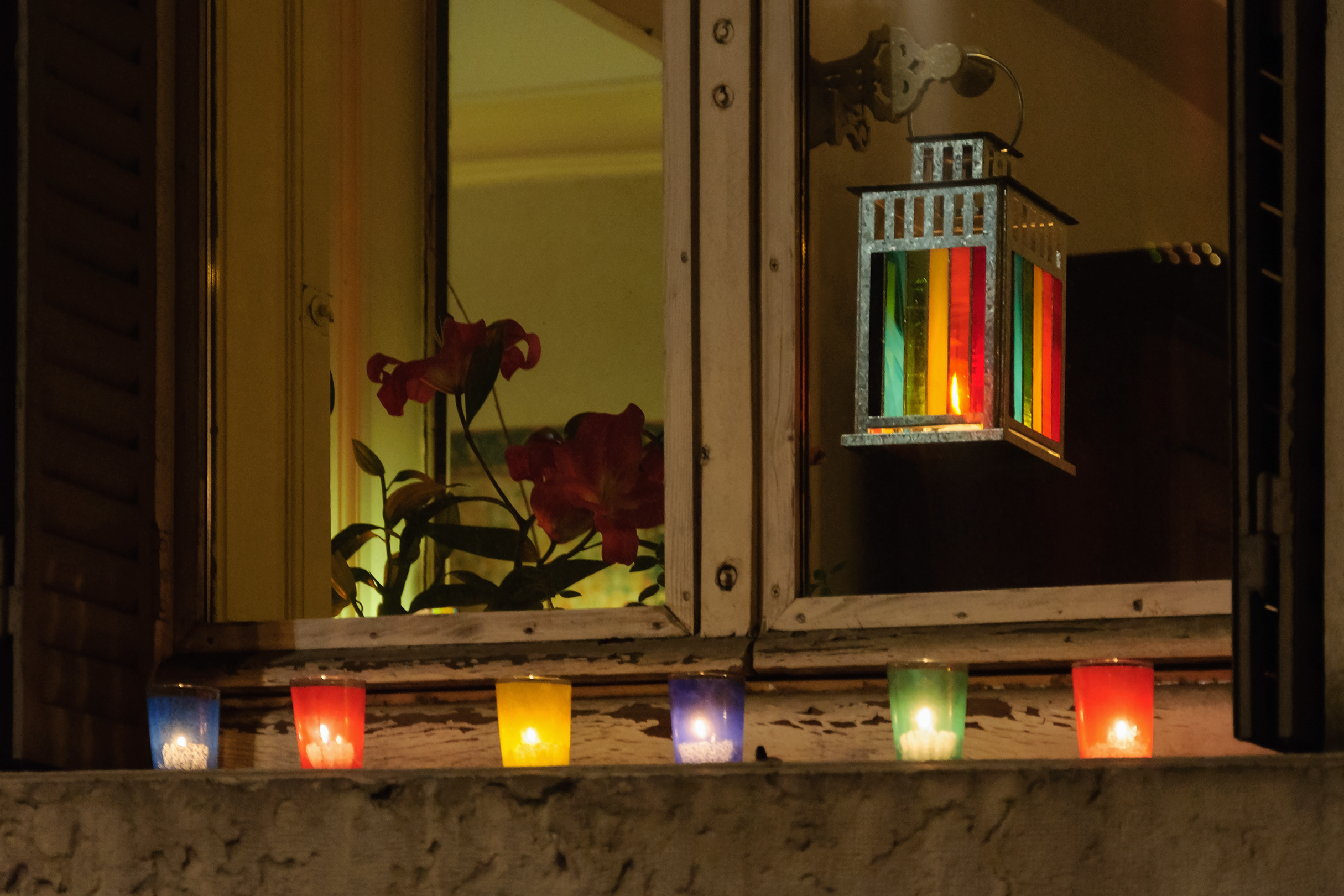 Candle lights called “lumignons” on a windowsill for the Festival of Lights on December 8 in Lyon, Rhône, France.